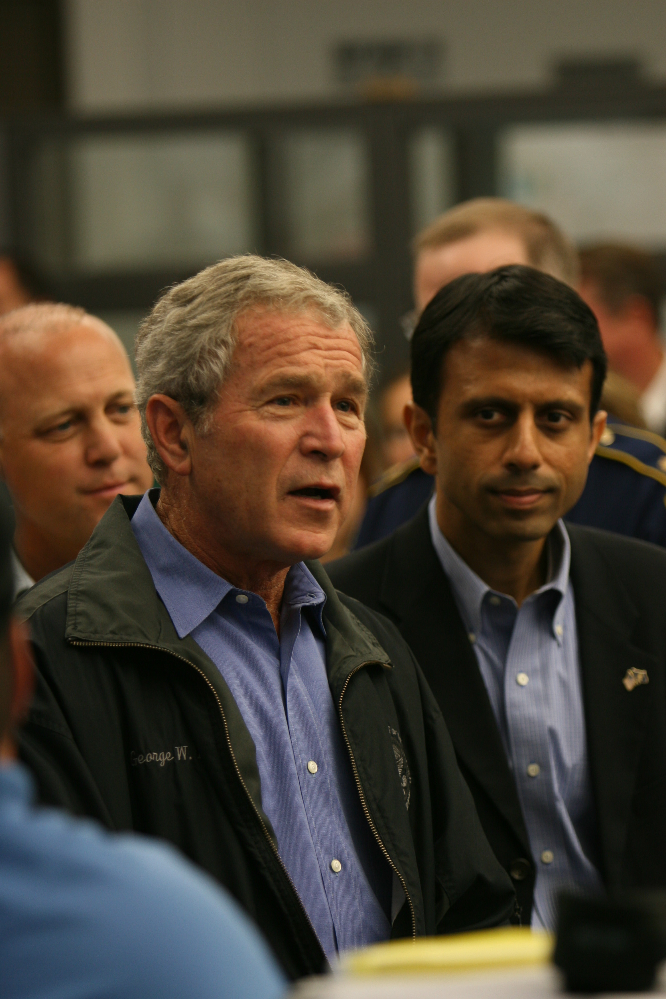 Baton Rouge, LA, September 3, 2008 -- President George W. Bush and Governor Bobby Jindal greeting EOC employees, during disaster recovery efforts for Hurricane Gustav. Jacinta Quesada/FEMA